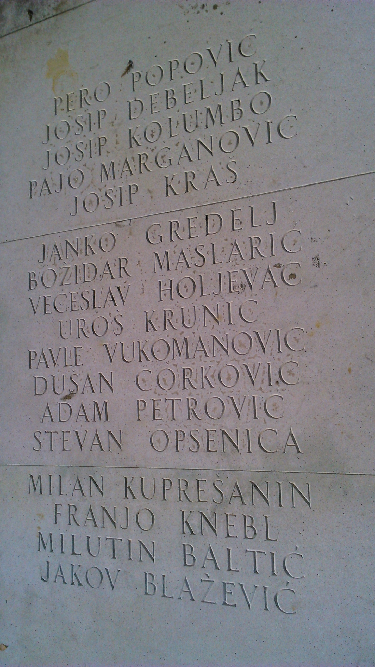 Right tombstone with namelist of the buried revolutionaries in the tomb, as of 2016.